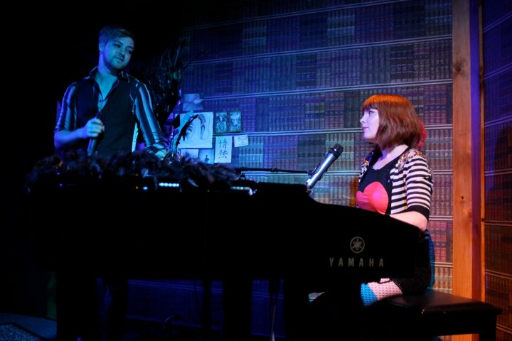 Tom Dickins and Jen Kingwell performing live at The Spaces Between